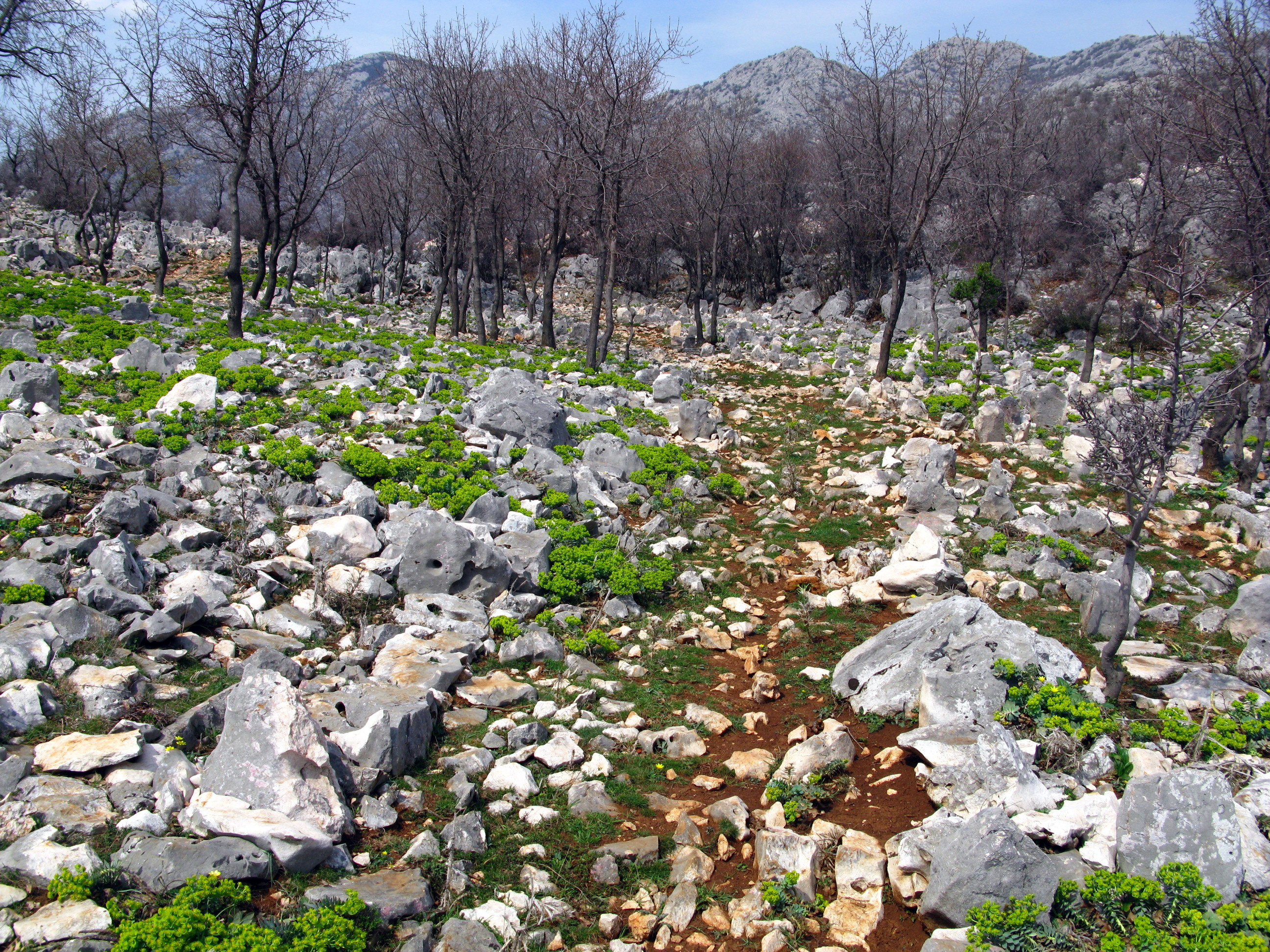 Vukićer Mirila near Ljubotič above Tribanj Kruščica at the Adriatic Highway near Starigrad in the Velebit mountain range in Croatia / Balkans / southeastern Europe.